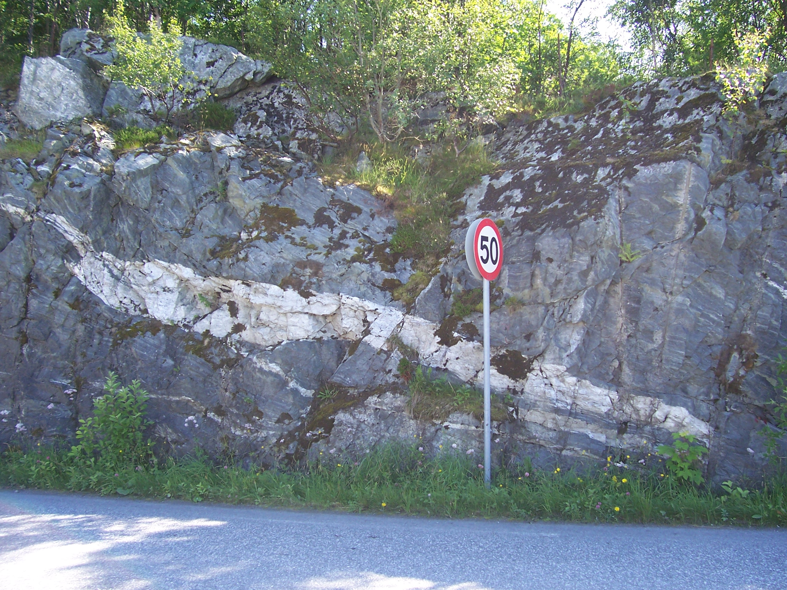 Small (roadside) pegmatite body (light colour) in an outcrop of otherwise dark amphibolitic gneiss. Near Midsund, Møre og Romsdal, Norway. Age: Caledonian intrusives in Neoproterozoic metasediments.